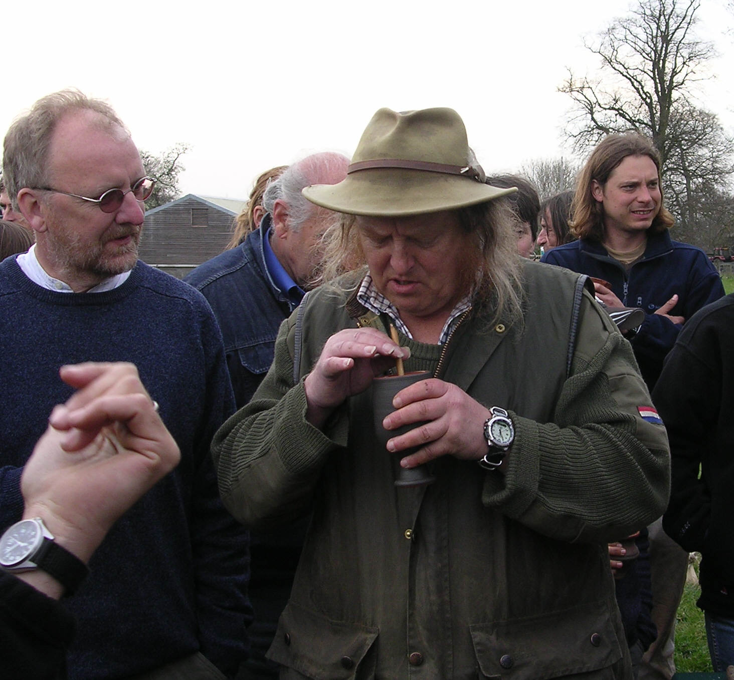 Author: G de la Bedoyere